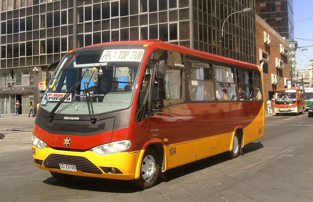 Streamlined Marcopolo Senior Minibus